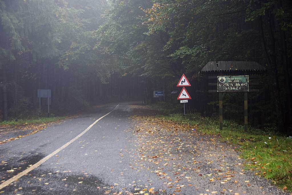 Huta Pass in Romania